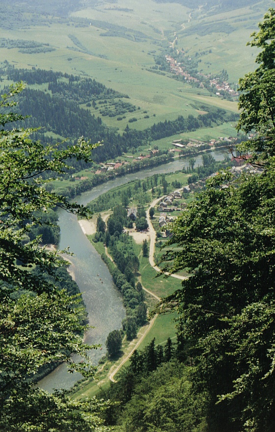 View of Dunajec from Pieniny.